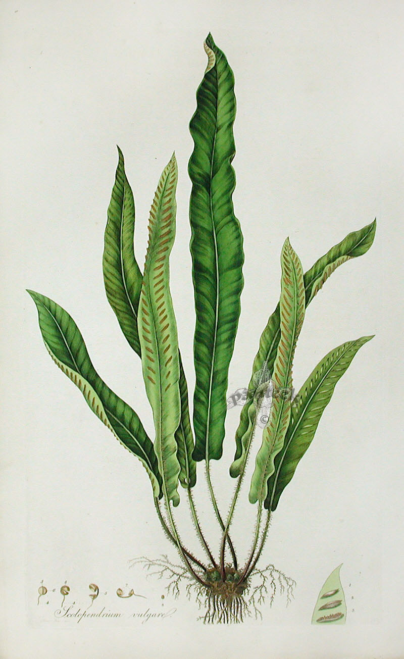 A print from William Curtis's Flora Londinensis